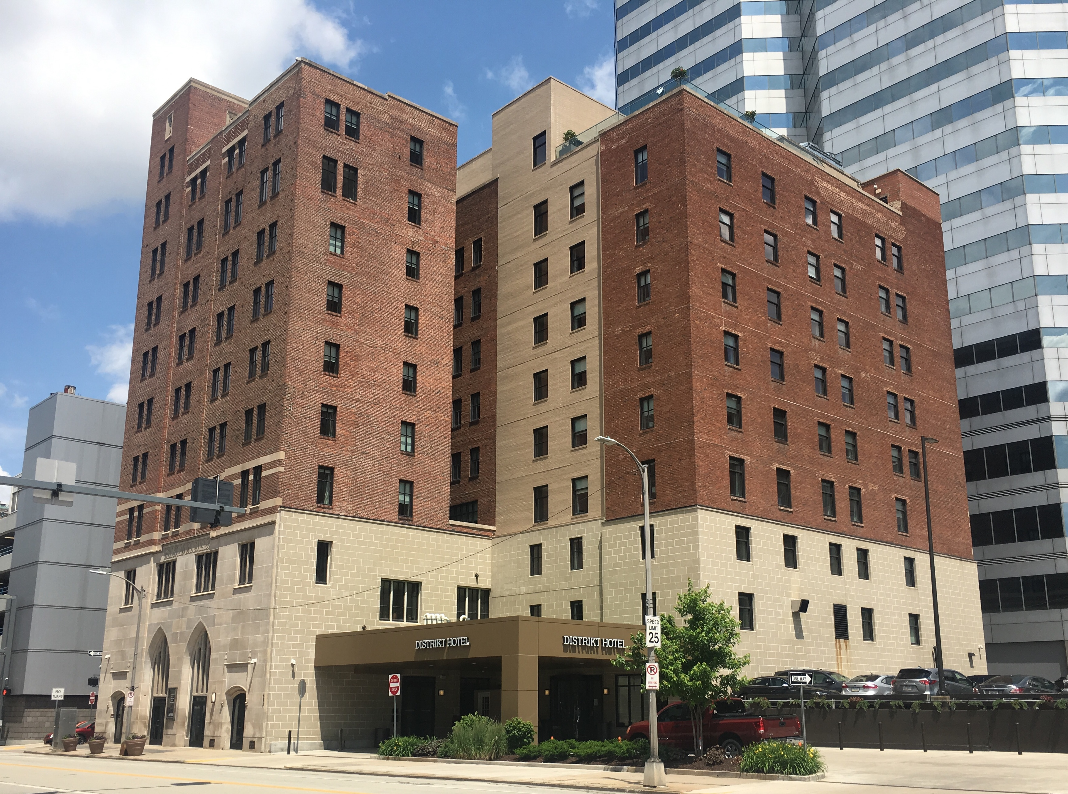 The Salvation Army Building, Distrikt Hotel Pittsburgh, 425-435 Boulevard of the Allies, Pittsburgh, Pennsylvania, from the west in 2019